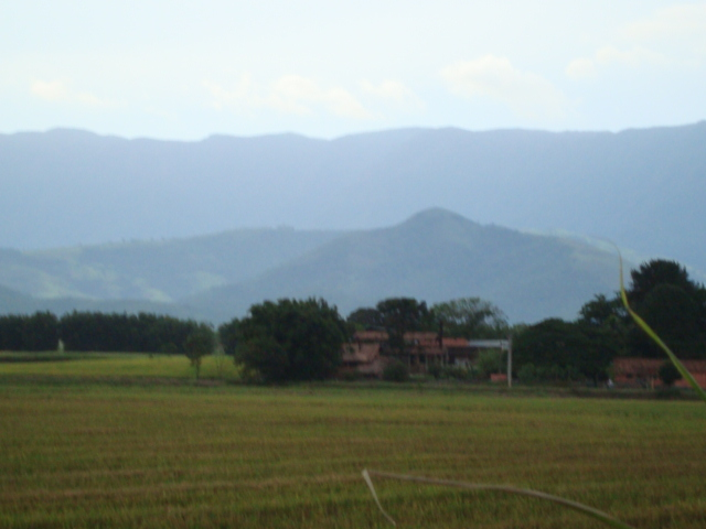 Vale do Paraíba and the Serra da Mantiqueira (mountain range) — Pindamonhangaba, São Paulo state, southeastern Brazil.